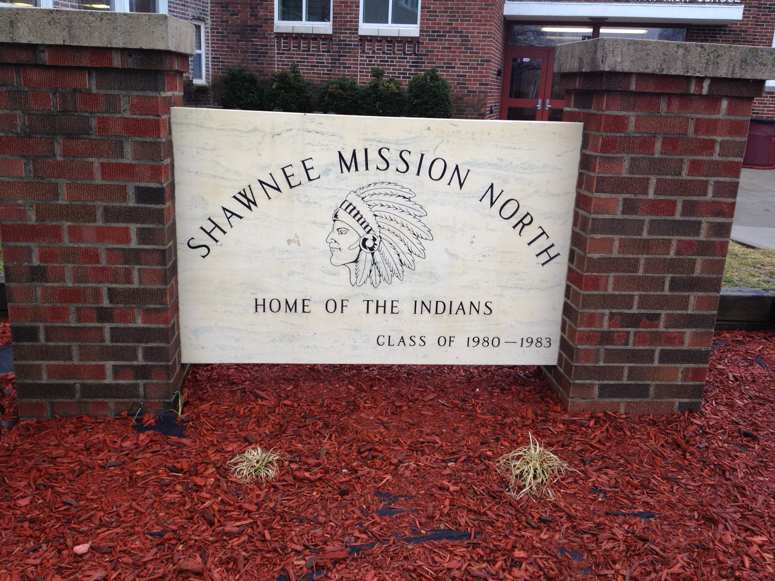 Photo of sign outside Shawnee Mission North High School, Overland Park, Kansas